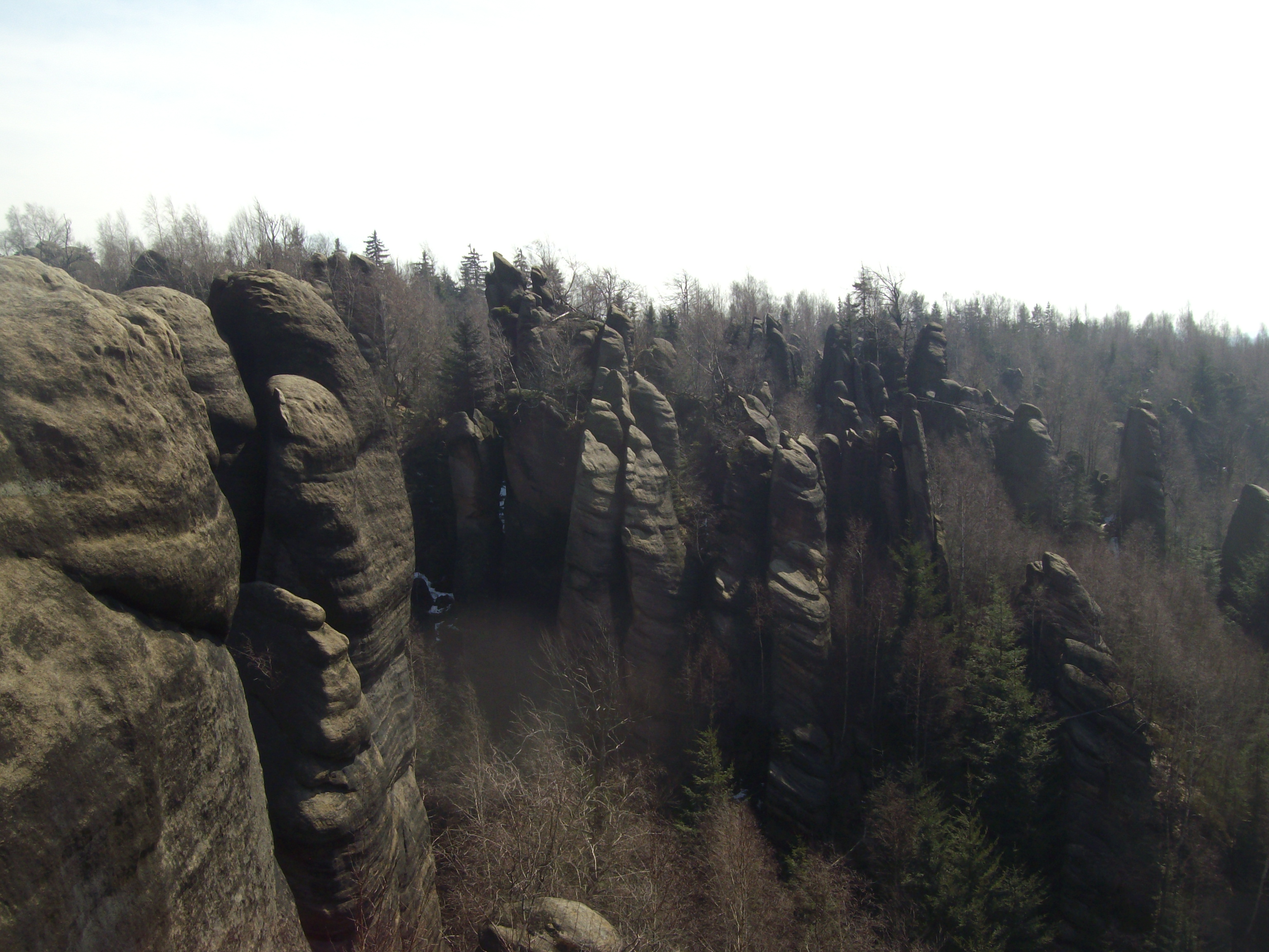 Rock Theatre in Broumov Rocks Area